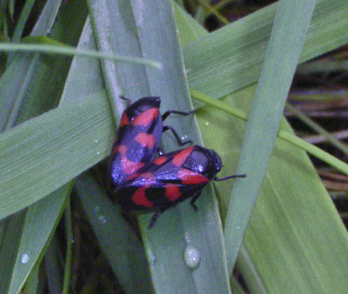 Mating Cercopis vulnerata